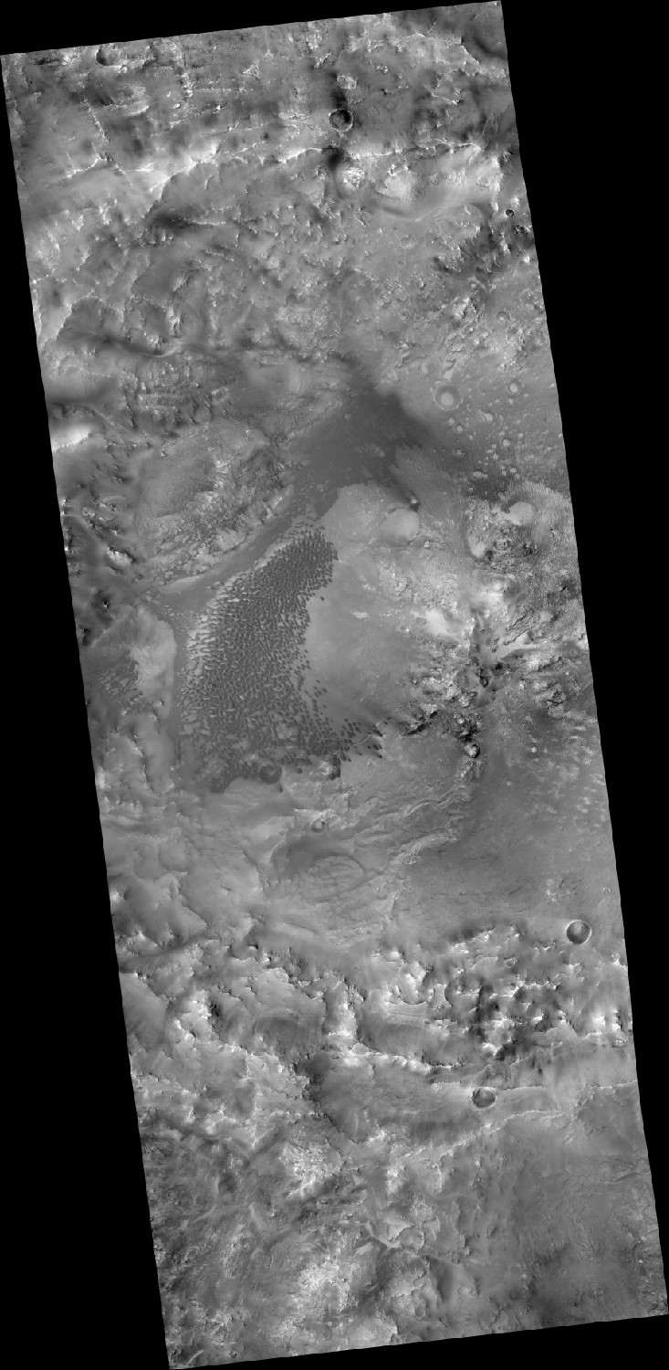 Central Hargraves crater on Mars. Mars Reconnaissance Orbiter CTX camera. Center Lon: 75.63° Local Time: 14.55 Solar Longitude: 21.08° Scaled Pixel Width: 5.69 m Incidence Angle: 38.76° Emission Angle: 7.91° Phase Angle: 30.91°